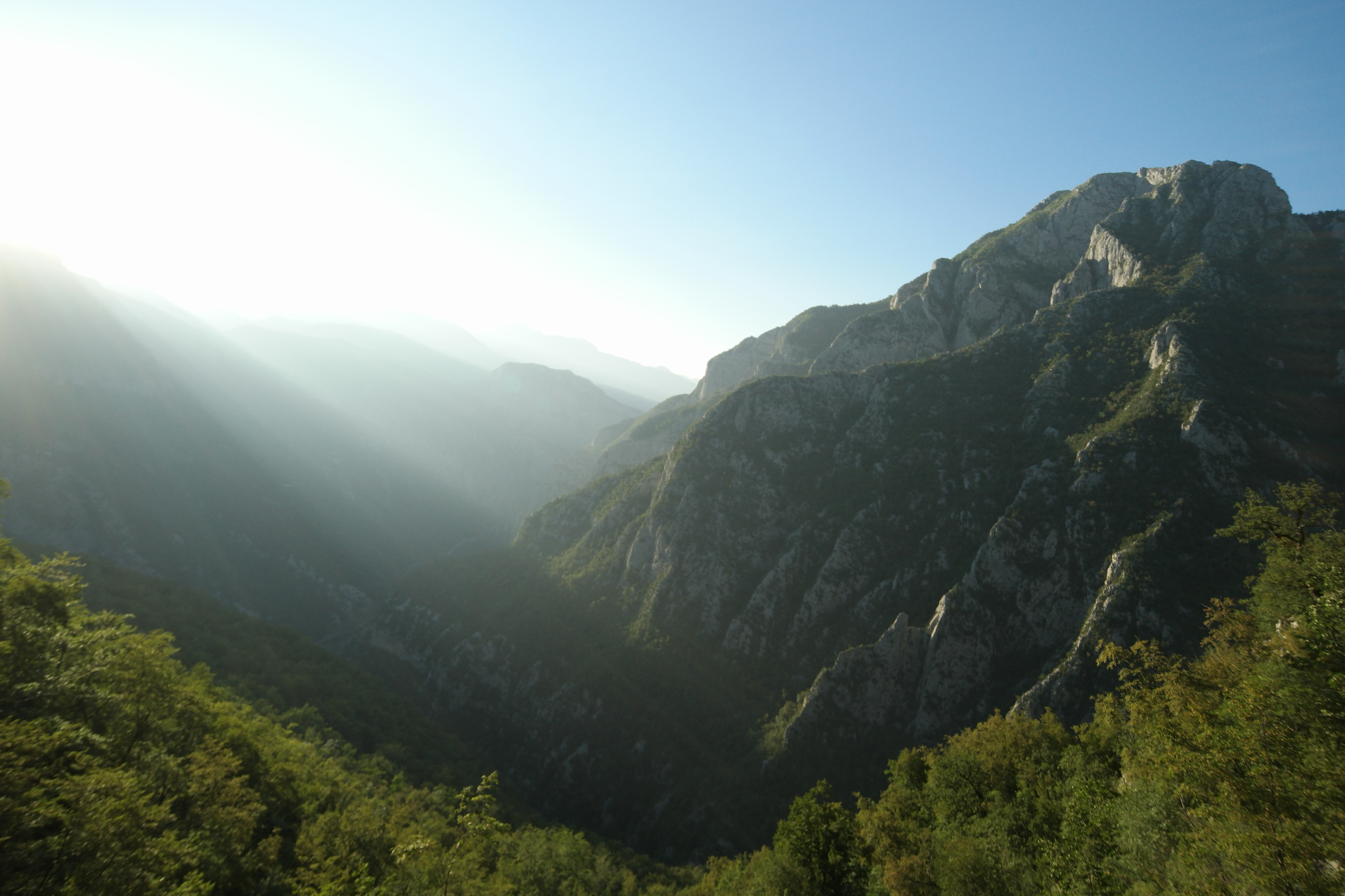 Montenegro Belgrade-Bar Railway view to Moraca canyon